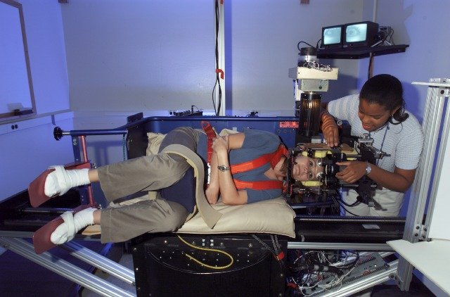 Science@NASA Using this human-sized centrifuge, Bill Paloski plans to spin astronauts in order to learn more about how our brains manage mental models for balancing. Usando questa centrifuga a dimensione d'uomo, Bill Paloski, programma di centrifugare gli astronauti, allo scopo di imparare di più su come il loro cervelli gestiscono i modelli mentali dell'equilibrio.